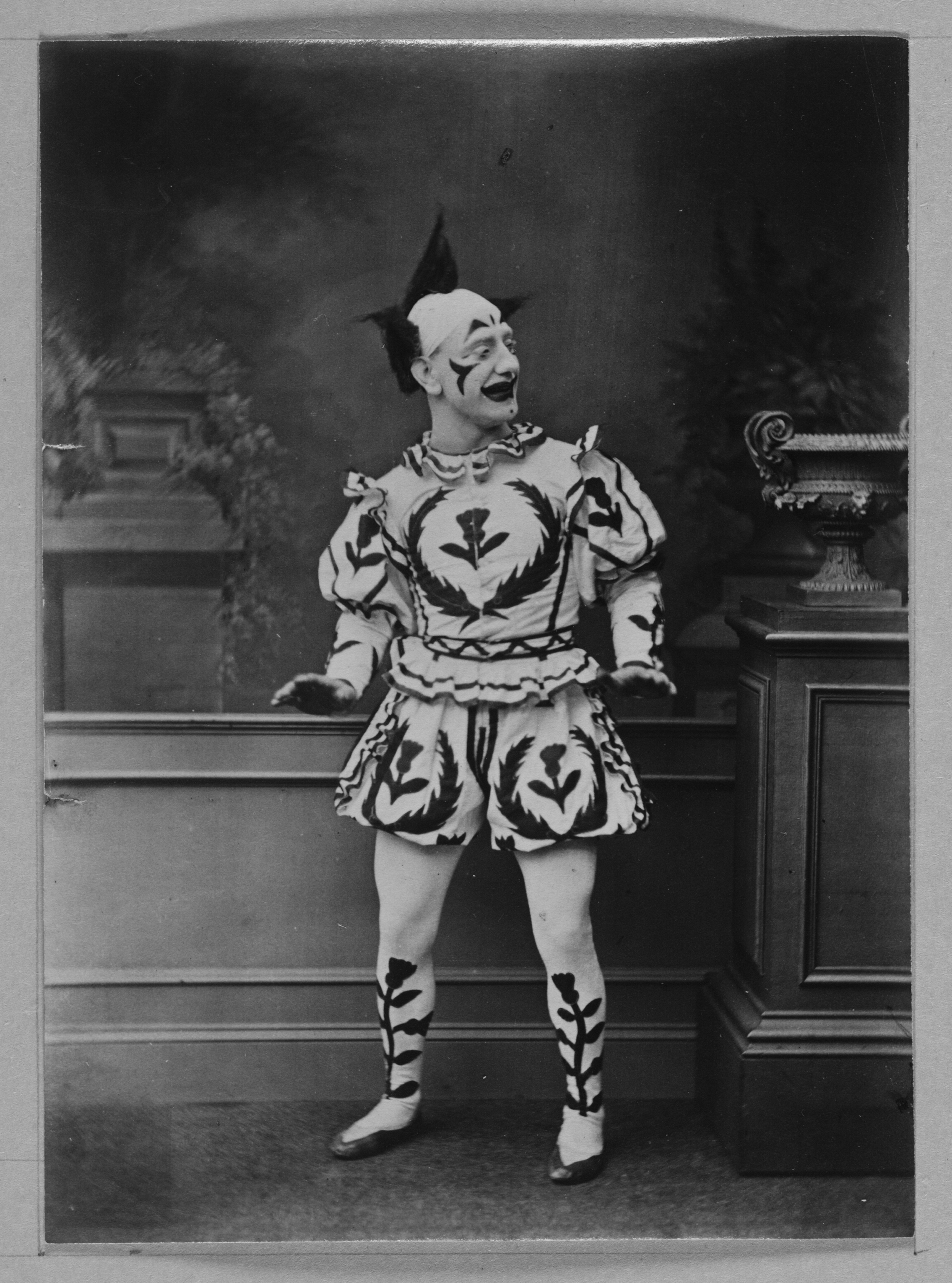 Actor in clown costume.